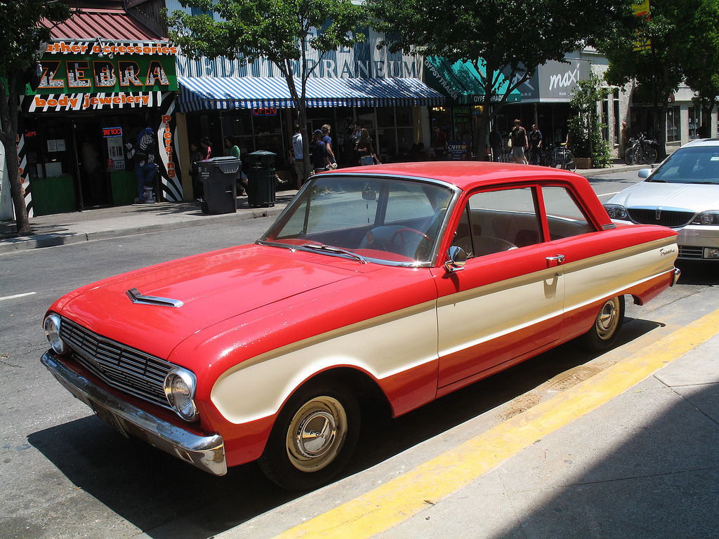 1963 Ford Falcon - 2 door sedan